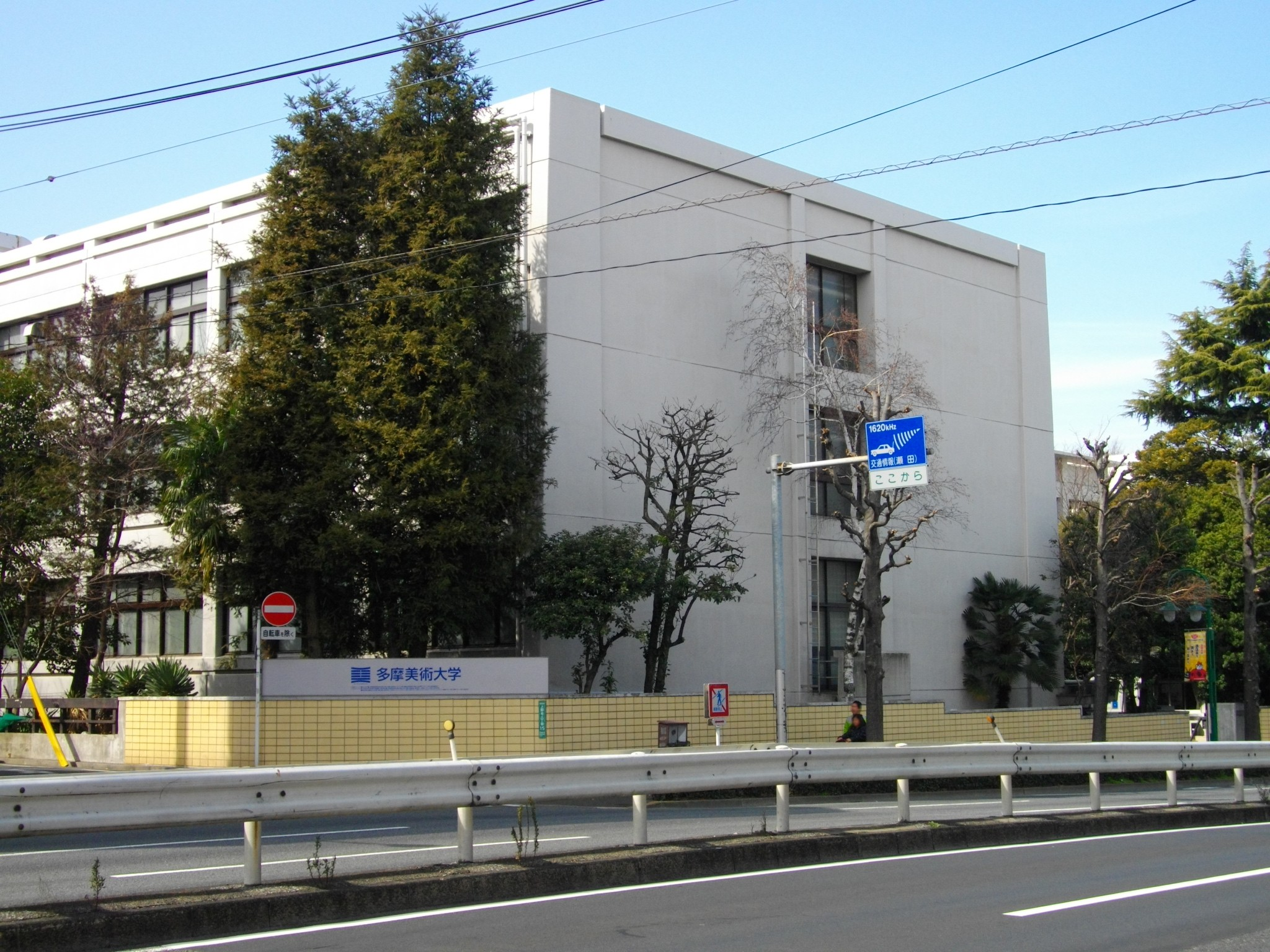 Tama Art University Kaminoge Cumpus